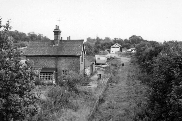 Bluntisham Station (remains). View eastward, towards Ely; ex-GER Ely - St Ives branch. Passenger services on the line and at this station ceased long ago on 2/2/31, but goods continued until line closed completely on 6/10/64. Meanwhile, the station became a private house.